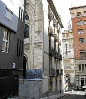 Street art, Bilbao la Vieja